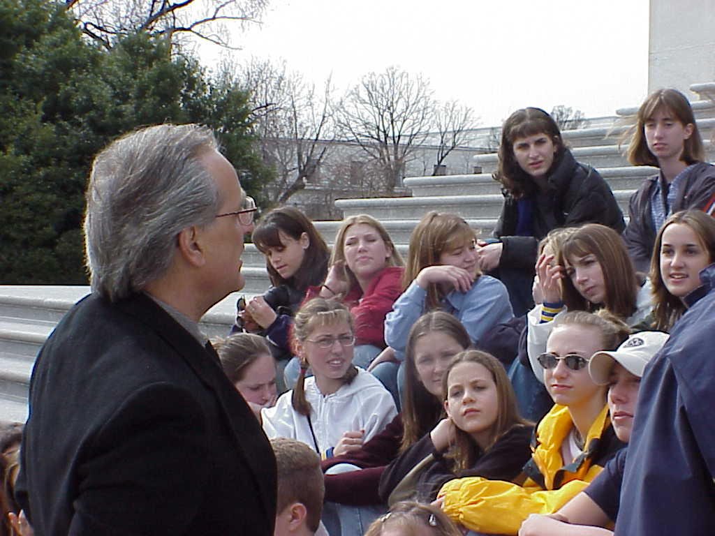 Ron Klink speaking to students outside.